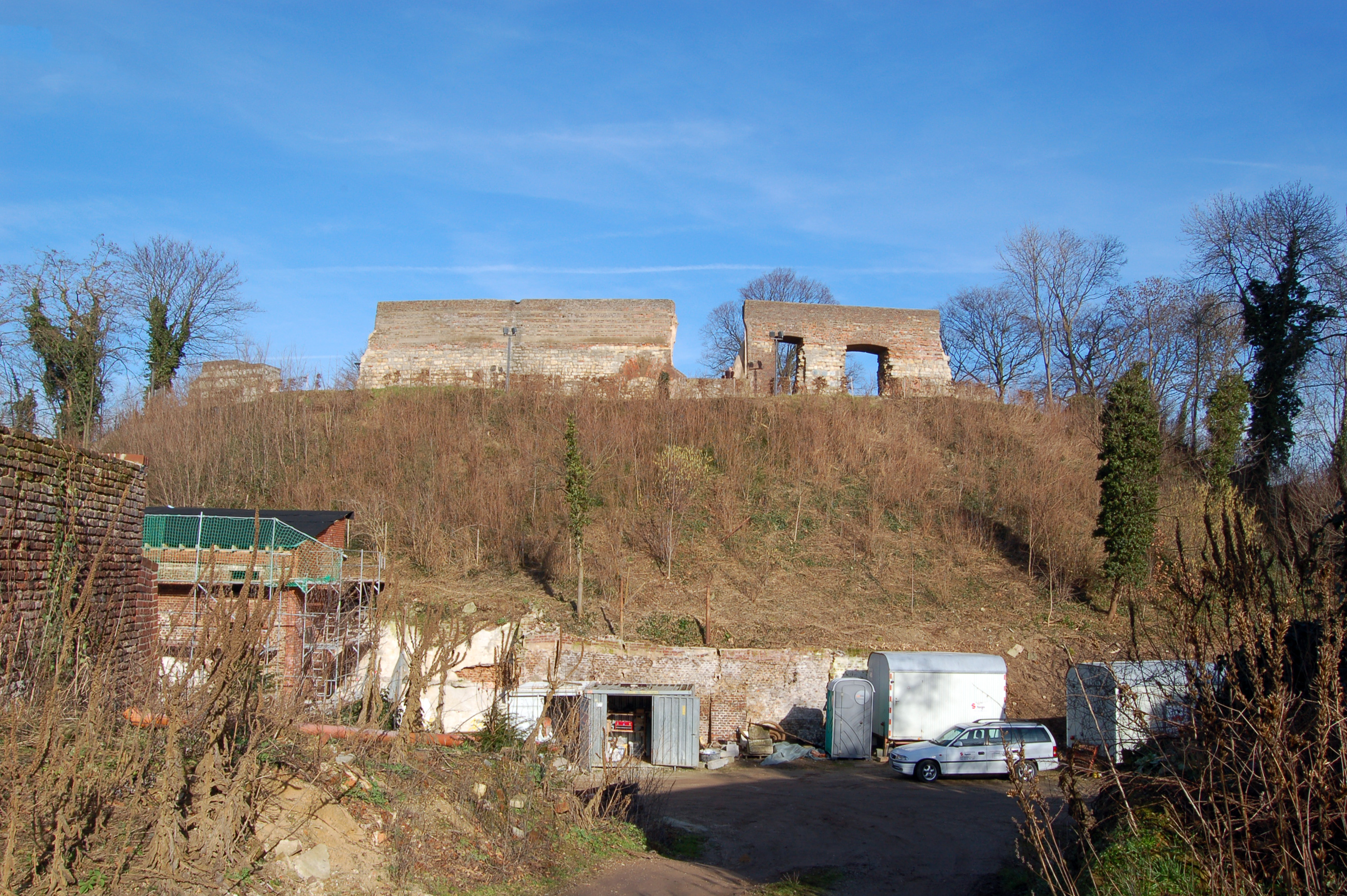 Burgberg in Heinsberg, Rhineland, seen from the Kirchberg